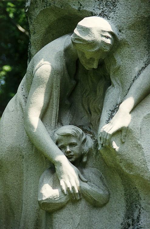 Detail from Mitchel family grave, Cadillac, Michigan